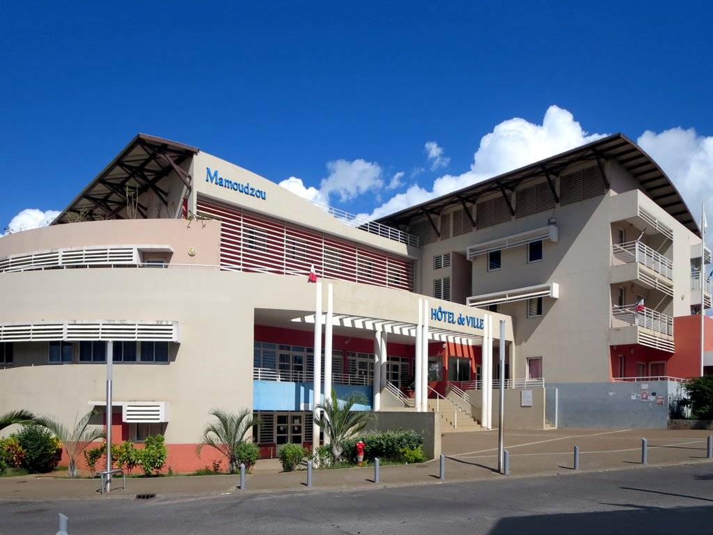 Mamoudzou City Hall on Grande Terre, Mayotte, illustrates the large subsidies this Indian Ocean overseas department receives from France.